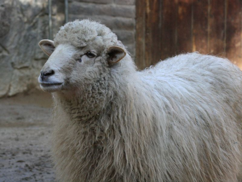 A Navajo-Churro ewe